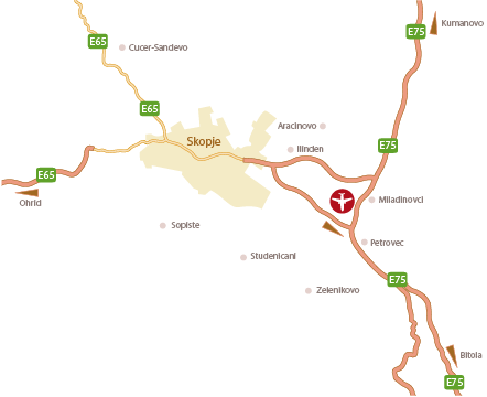 Getting to Skopje Airport